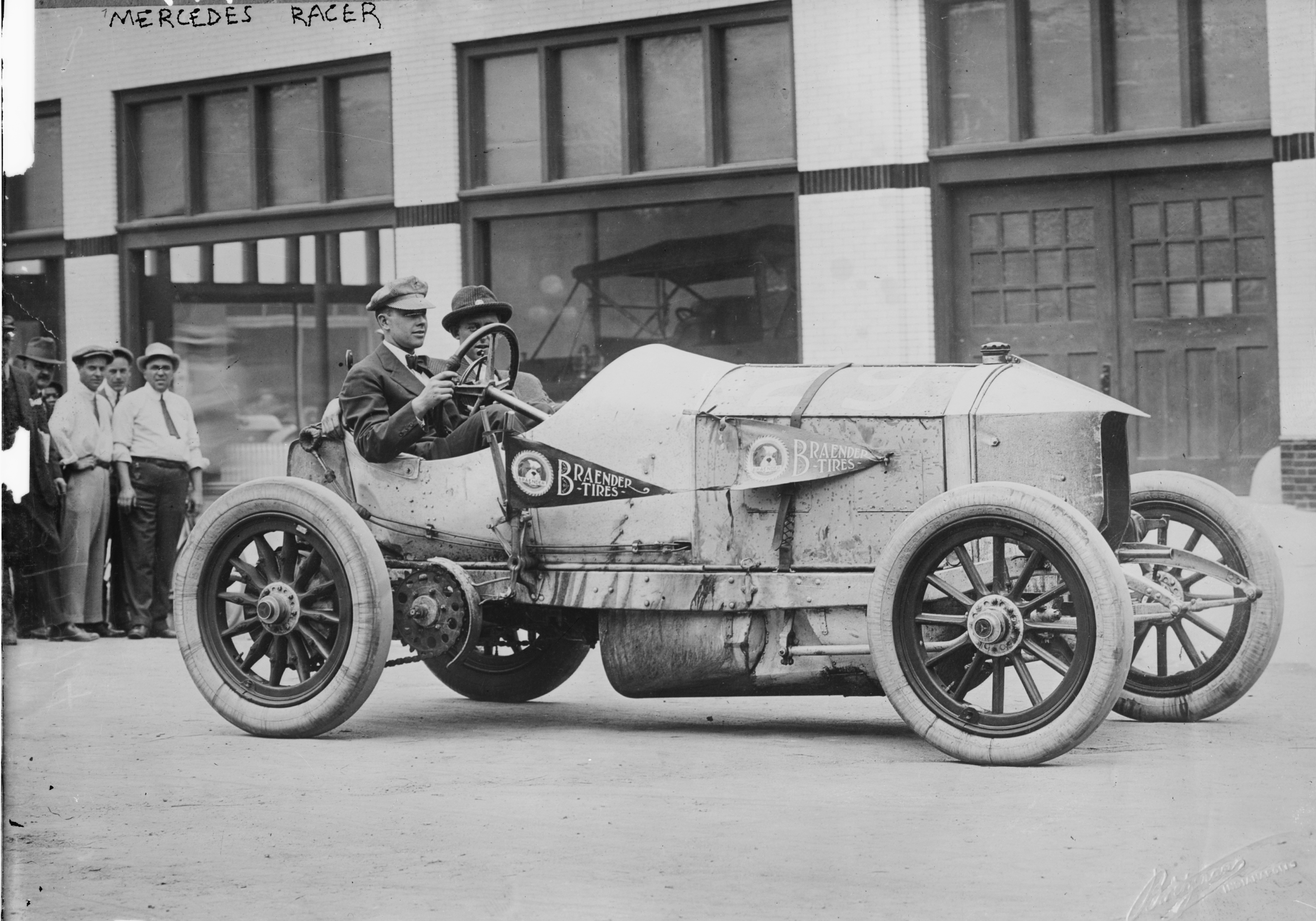 Bain News Service,, publisher. 1908 GP Mercedes car entered in the 1913 Indianapolis Race using Braender tires. The driver is Ralph Mulford. He finished 7th and interestingly drove the entire race on a single set of Braender tires. This is the same car that Ralph DePalma used in the 1912 Indianapolis race and after leading for 196 laps the engine threw a rod and DePalma did not finish. [between ca. 1910 and ca. 1915] 1 negative : glass ; 5 x 7 in. or smaller. Notes: Title from unverified data provided by the Bain News Service on the negatives or caption cards. Forms part of: George Grantham Bain Collection (Library of Congress). Format: Glass negatives. Repository: Library of Congress, Prints and Photographs Division, Washington, D.C. 20540 USA, General information about the Bain Collection is available at Persistent URL: Call Number: LC-B2- 2979-6